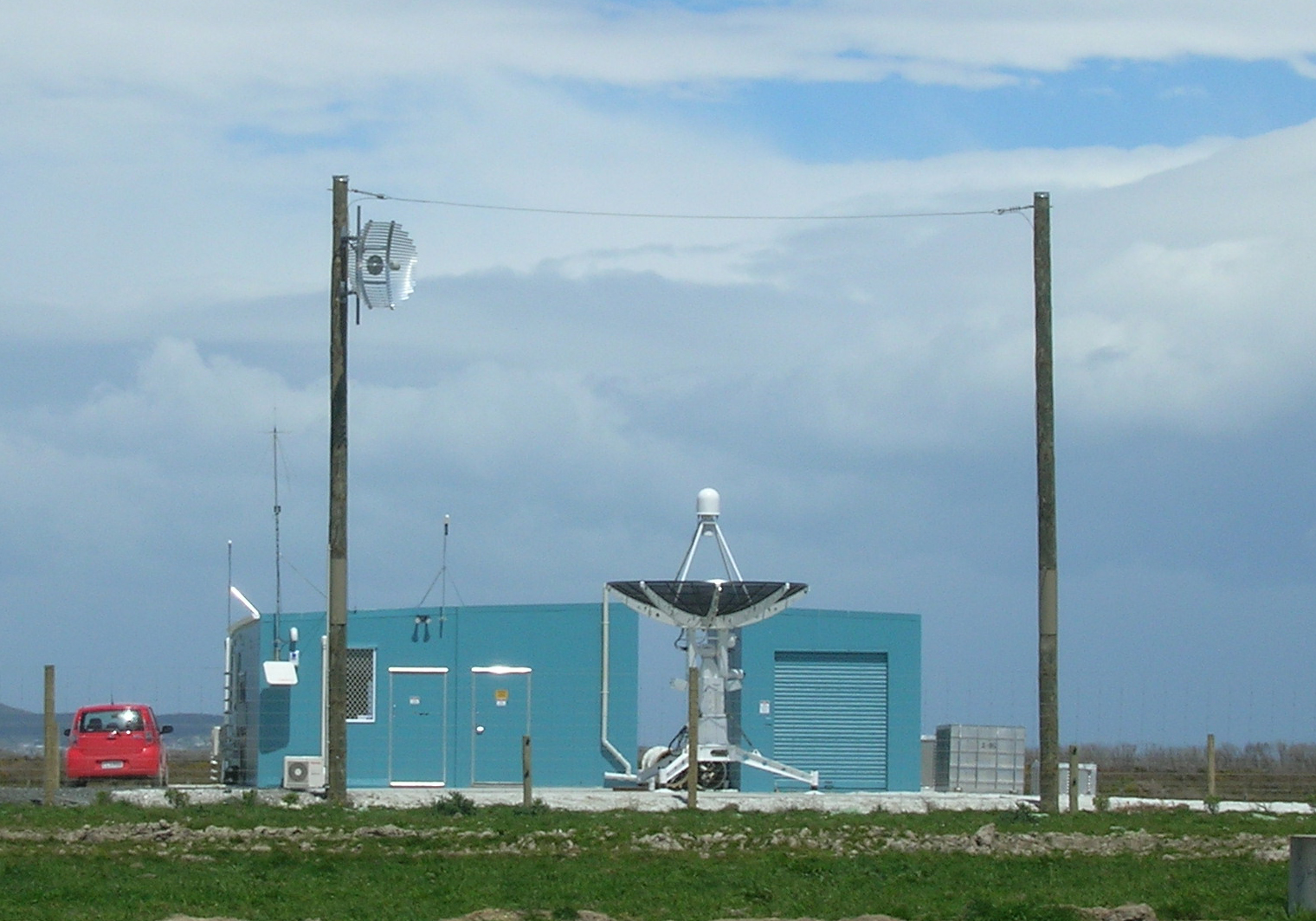 Awarua Tracking Station of the European Space Agency near Invercargill, New Zealand, with dish-shaped 3.5m diameter tracking antenna deployed. Photo by Robin McNeill. Please credit "Photo by Robin McNeill" when using this photo. Date uncertain during March 2008 (nominally recorded below as 1 March), no notable changes since then as of 2011-04-05